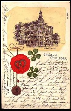 Cornelius-Haus an der Königsallee 9 bis 10 Ecke Schadowstraße und Blumenstraße in Düsseldorf, erbaut 1896 bis 1897, Architekten Klein & Dörschel, Postkarte.AK Gruss aus Düsseldorf Cornelius Haus 1901 ges. gesc. Cramer`s Kunstverl. Dortmund beschrieben ,mit Marke und Stempel Düsseldorf*1+ 25.1.01 Erhaltung: siehe Scan, gebrauchsspuren